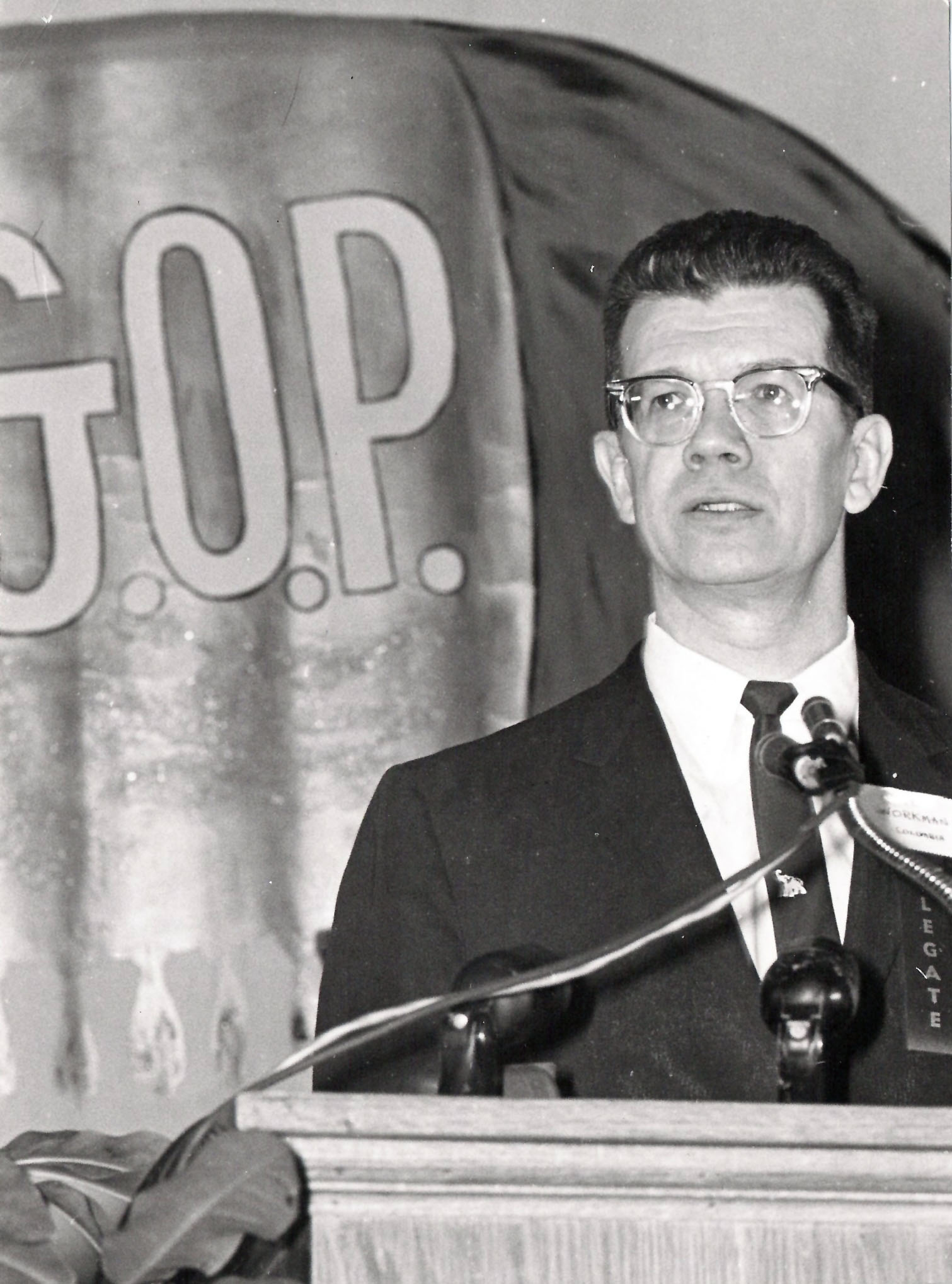 William D. Workman speaking at a GOP event in 1962